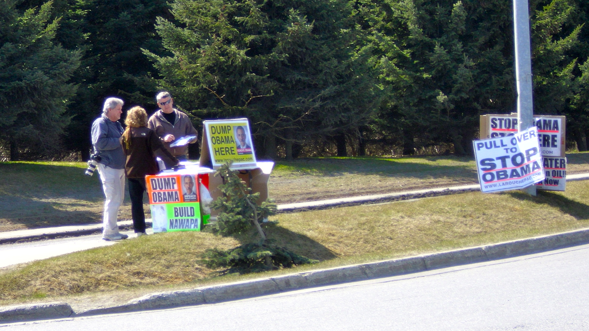 Roadside table manned by supporters of Lyndon LaRouche, Homer, Alaska